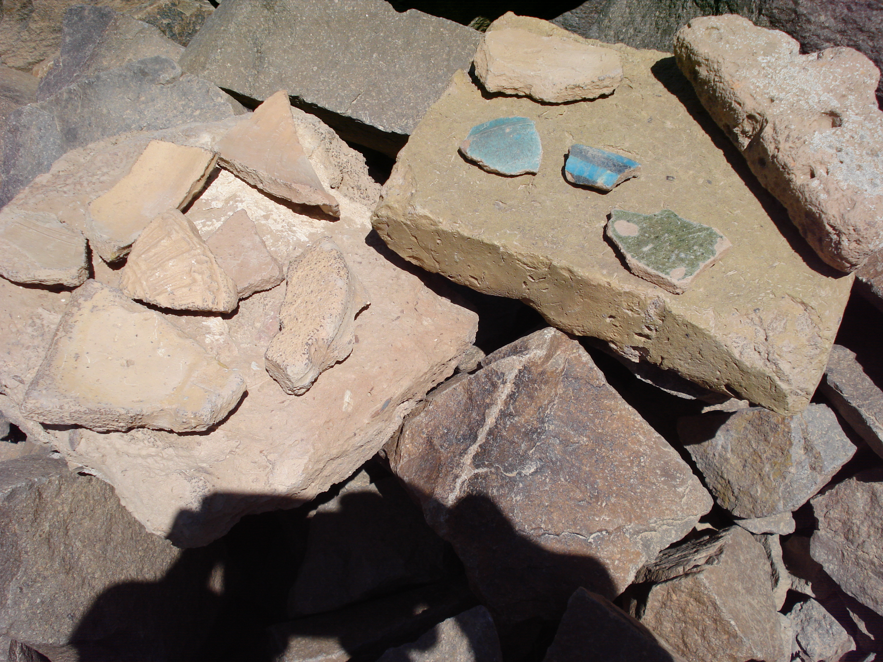 Destruction of yazdgerd 3Th last castle in Zibad, Gonabad County, Iran, by robbers